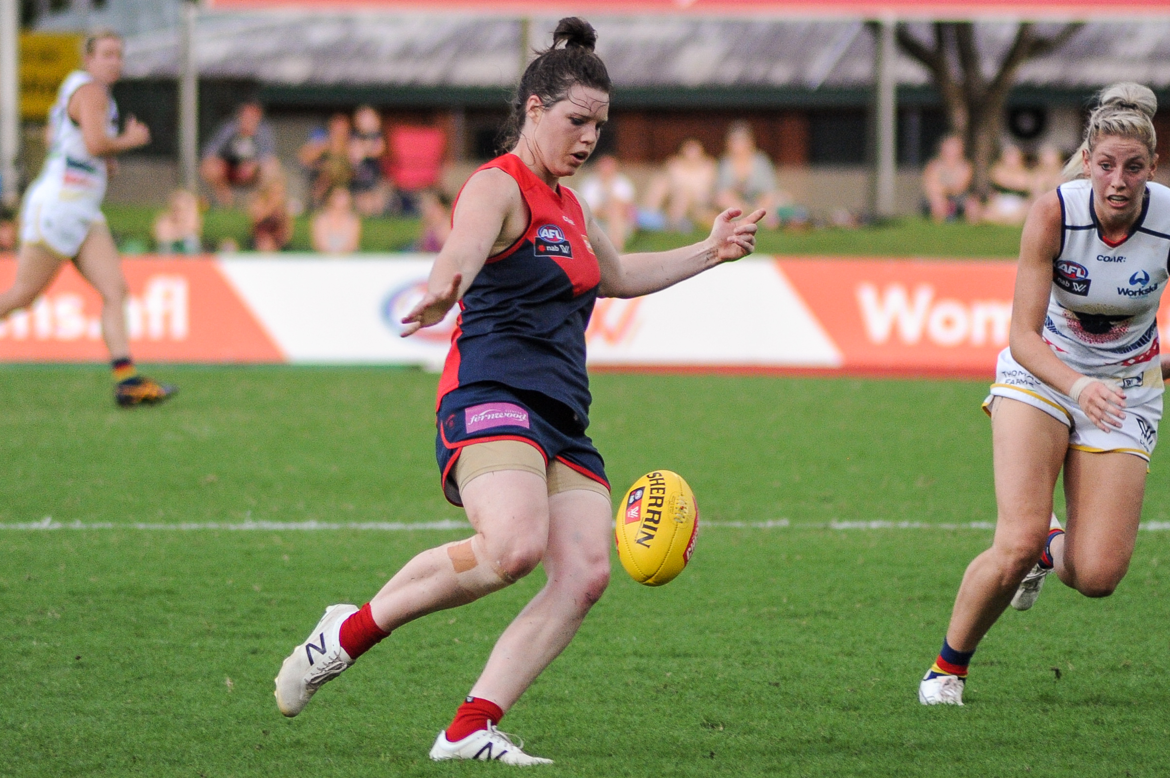 Elise O'Dea kicking during the AFL Women's round six match between Adelaide and Melbourne on 11 March 2017 at TIO Stadium in Darwin, Northern Territory